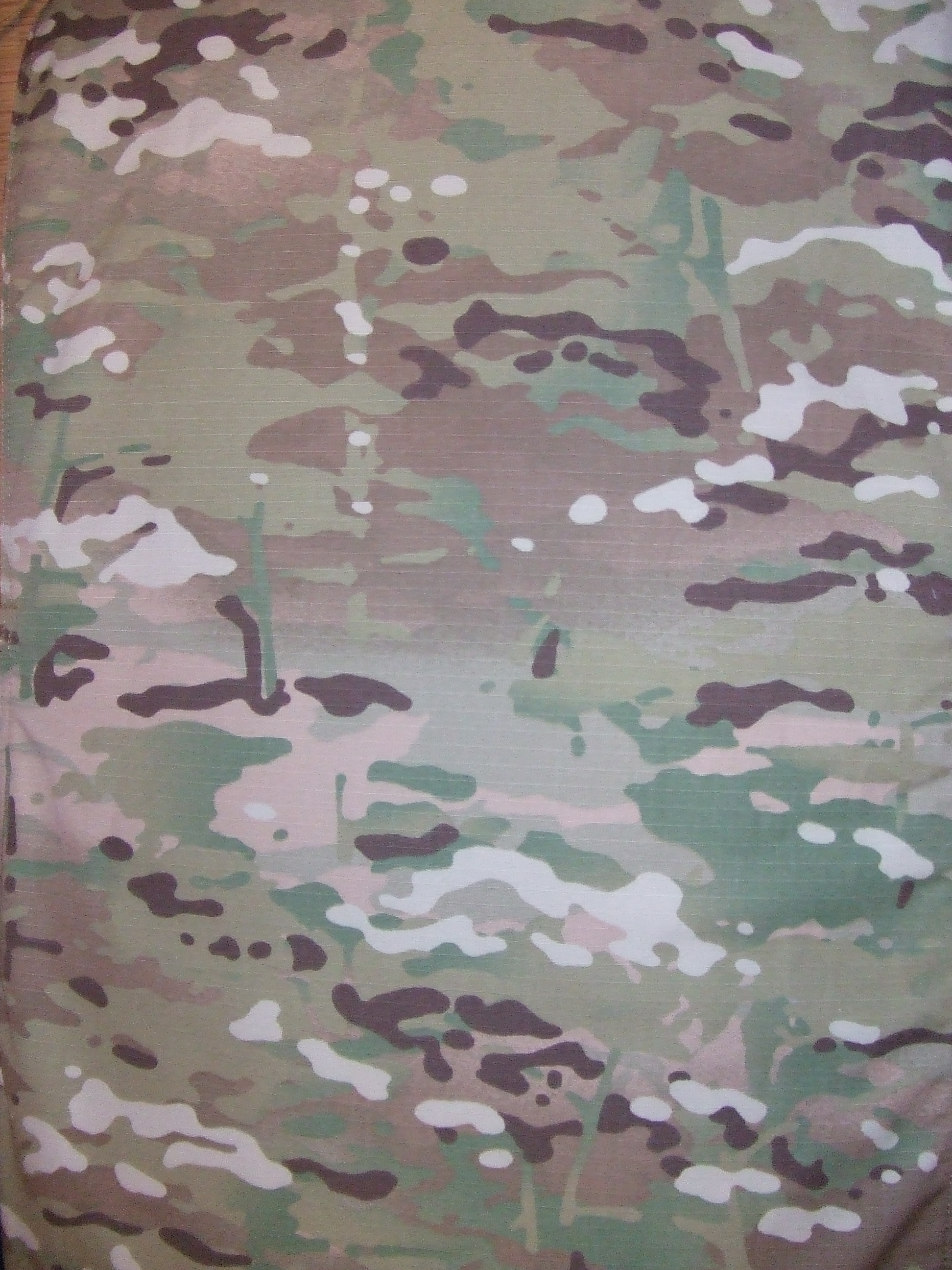 A photo of my own cloth.